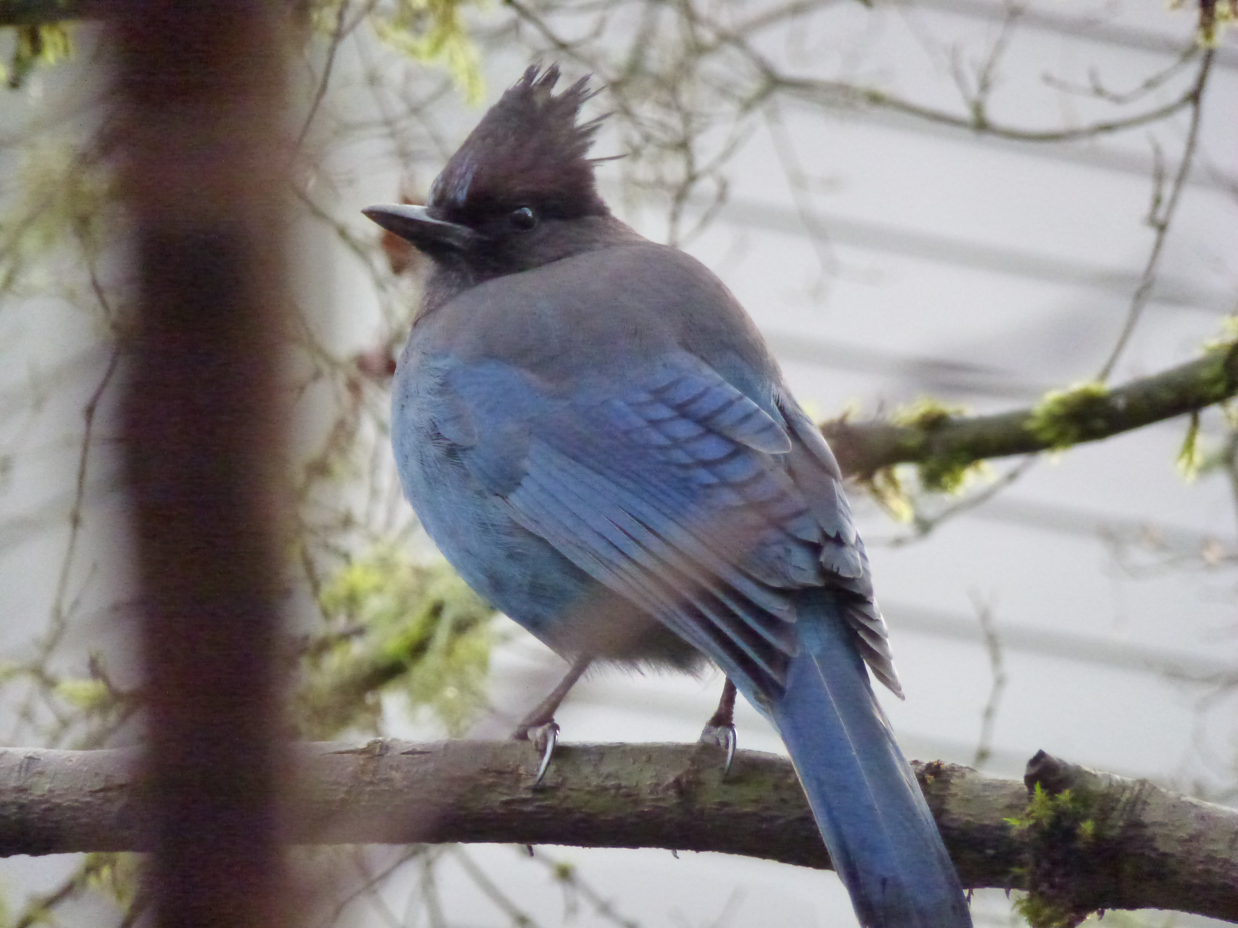 Adult Steller's jay exhibiting a blue streak on its black crests, common on the Pacific Coast.